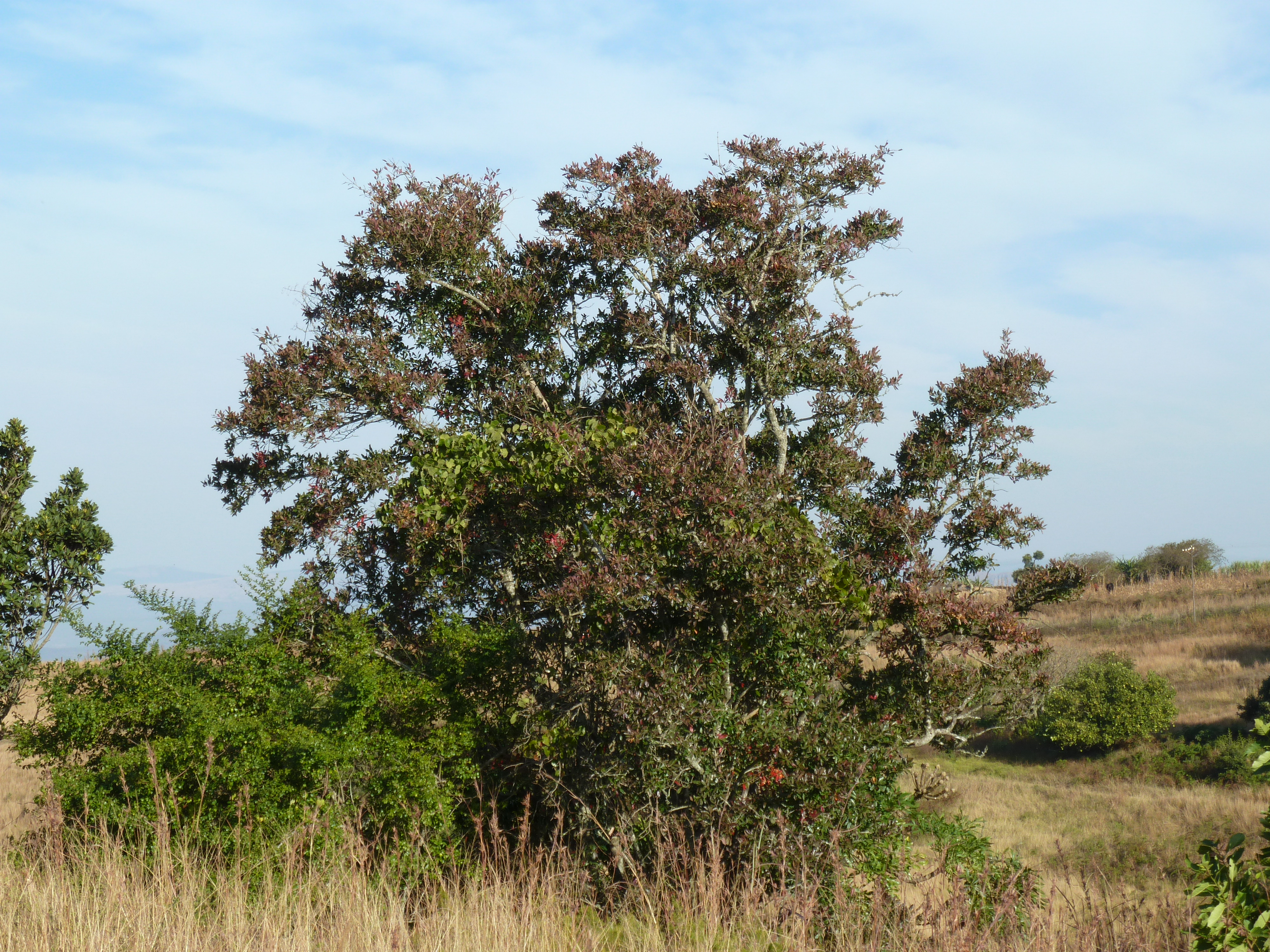 Habit of a Forest Bushwillow, near Louwsburg, KwaZulu-Natal Also visible (f.l.t.r. in foreground) are Rapanea melanophloeos, Cassinopsis ilicifolia, Rhoicissus tomentosa (creeper), Cussonia spicata and Maesa lanceolata.